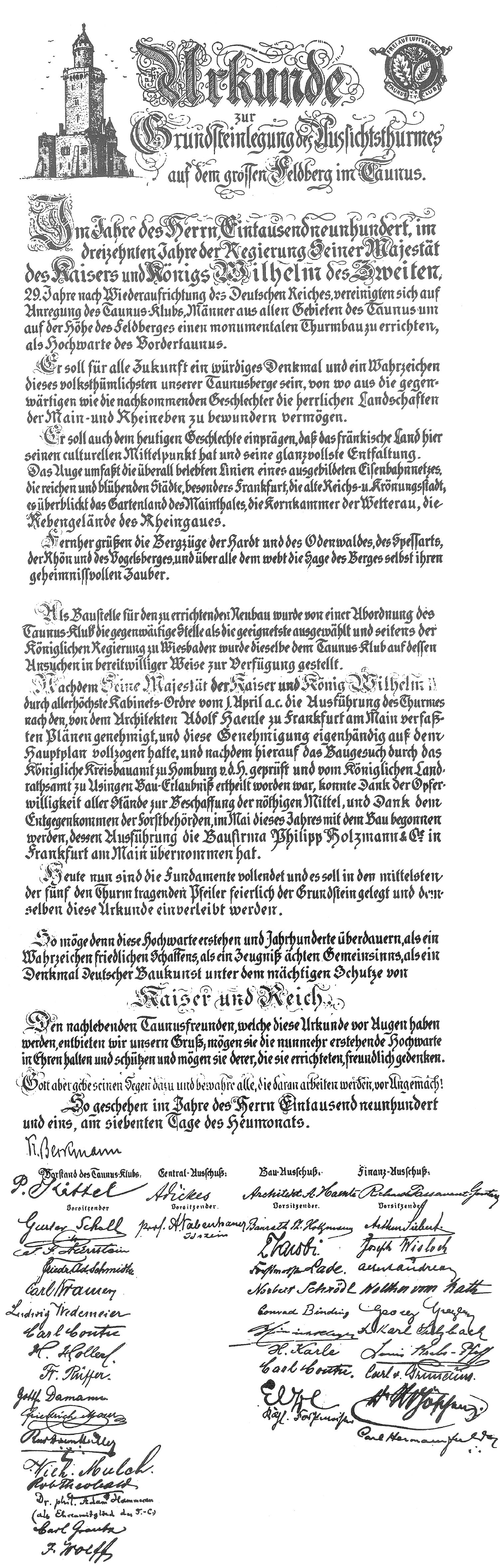 Instrument of foundation stone of the tower